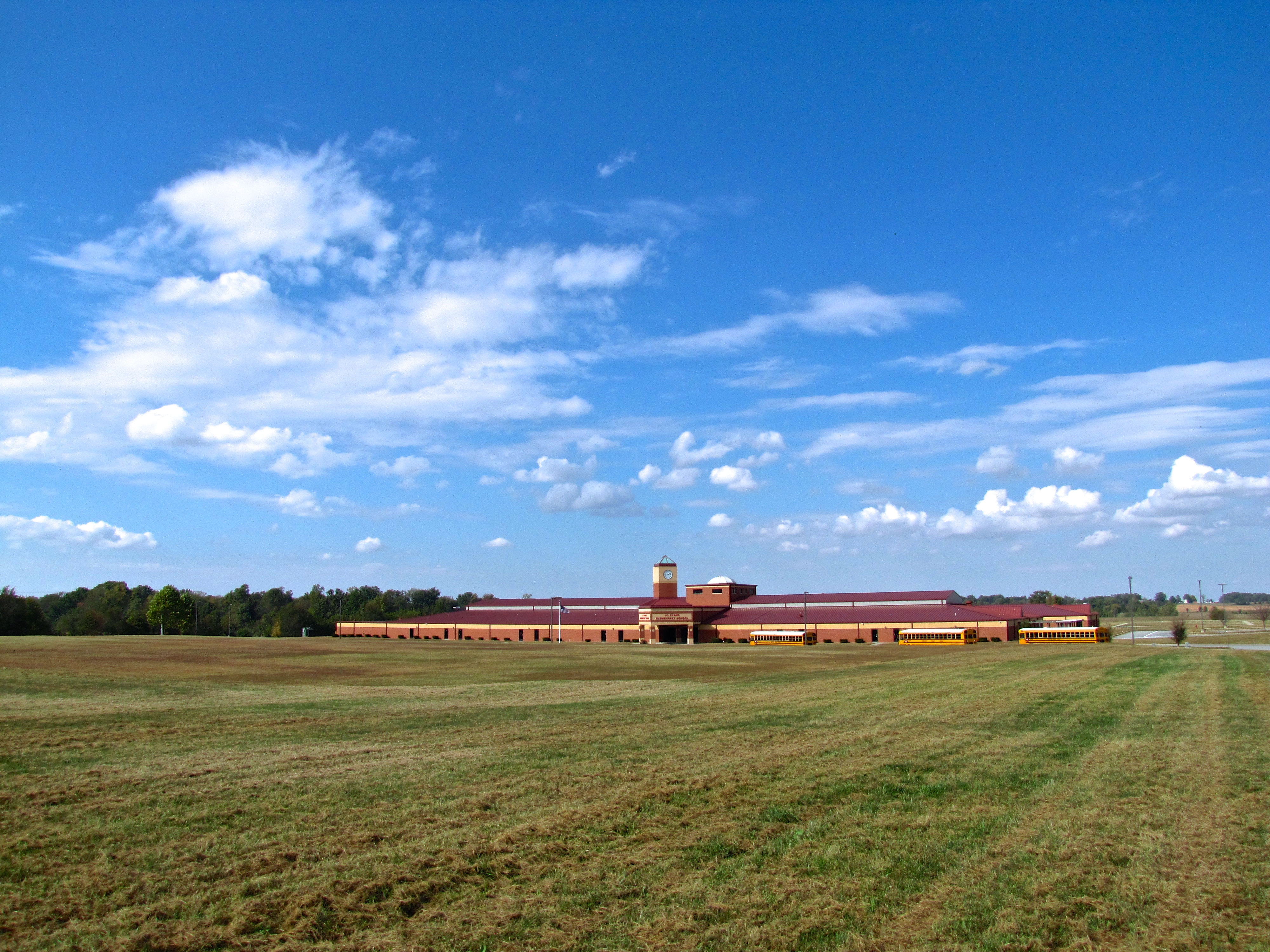 Jo Byrns Elementary School near Cedar Hill, Tennessee, United States.